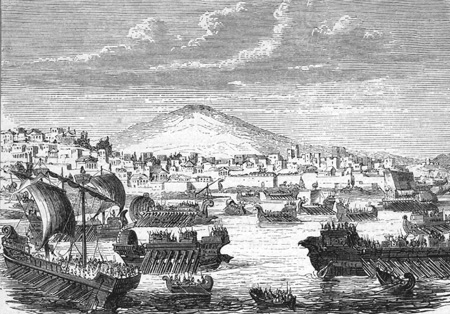 BBNCE5 events, Peloponnesian War 431 - 404 BC, Sicilian Expedition 415 - 413 BC, the Athenian fleet before Syracuse, wood engraving, 19th